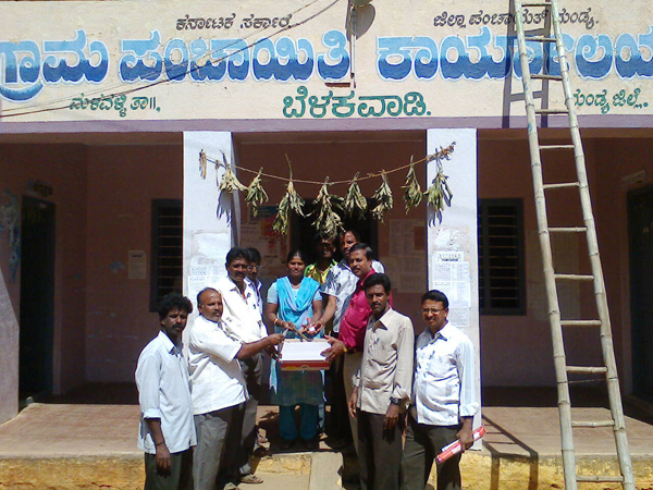 Losangra-abiyana-malavalli-taluck-belakavadi-sakthikendra